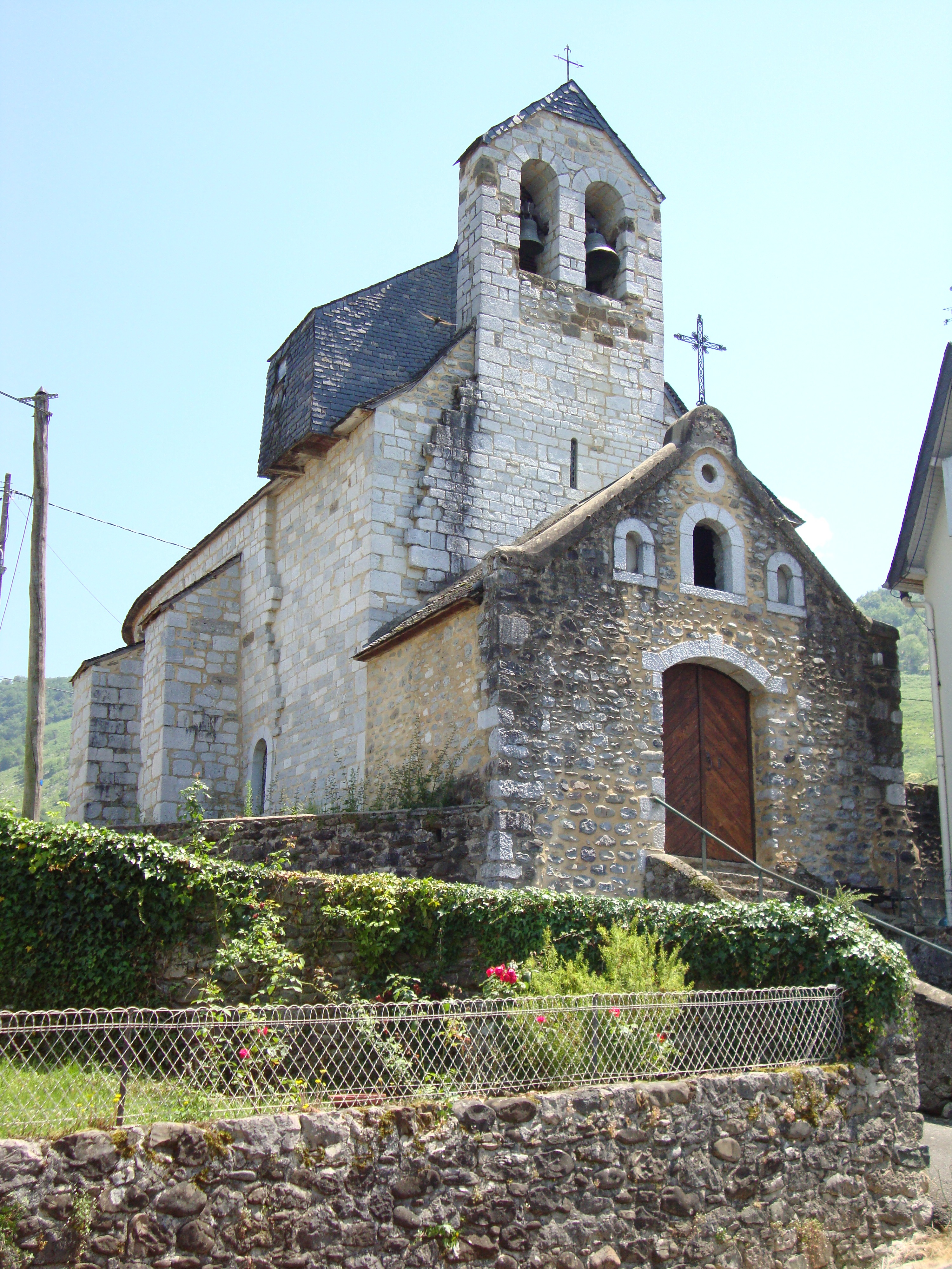 Laguinge (Laguinge-Restoue, Pyr-Atl, Fr) Saint Sebastian church